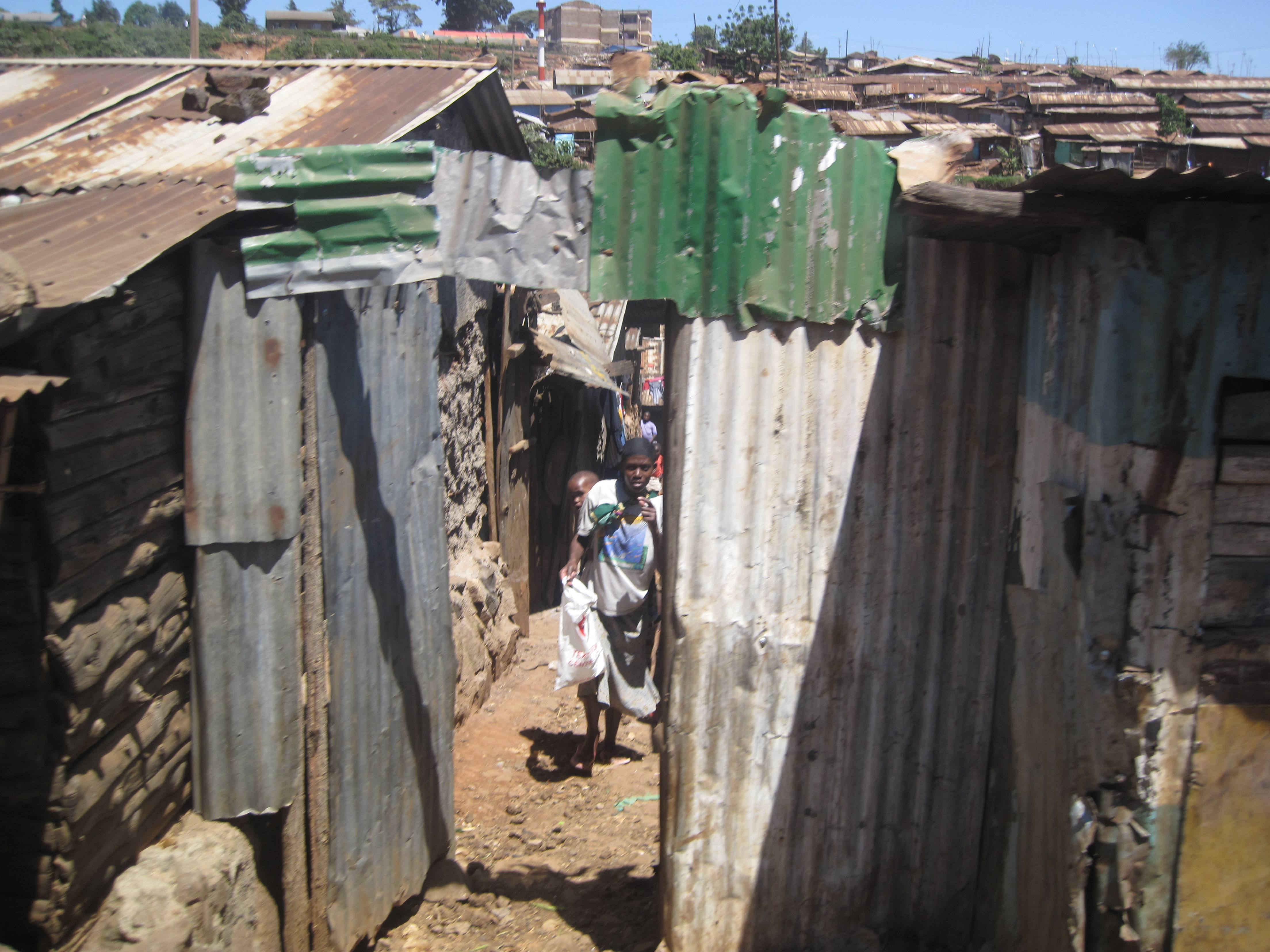 Kibera slum